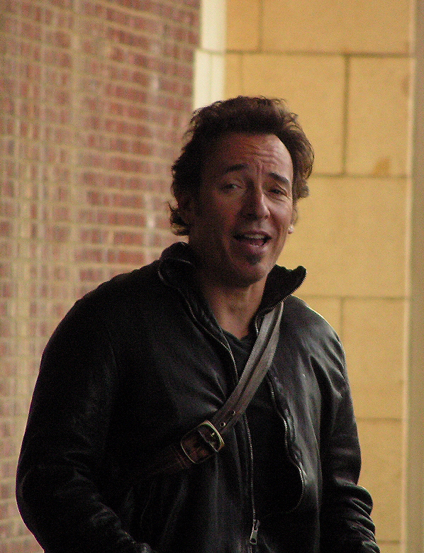 A portrait of Bruce Springsteen on the ramp leading out of Convention Hall on the northwest side in Asbury Park, New Jersey.